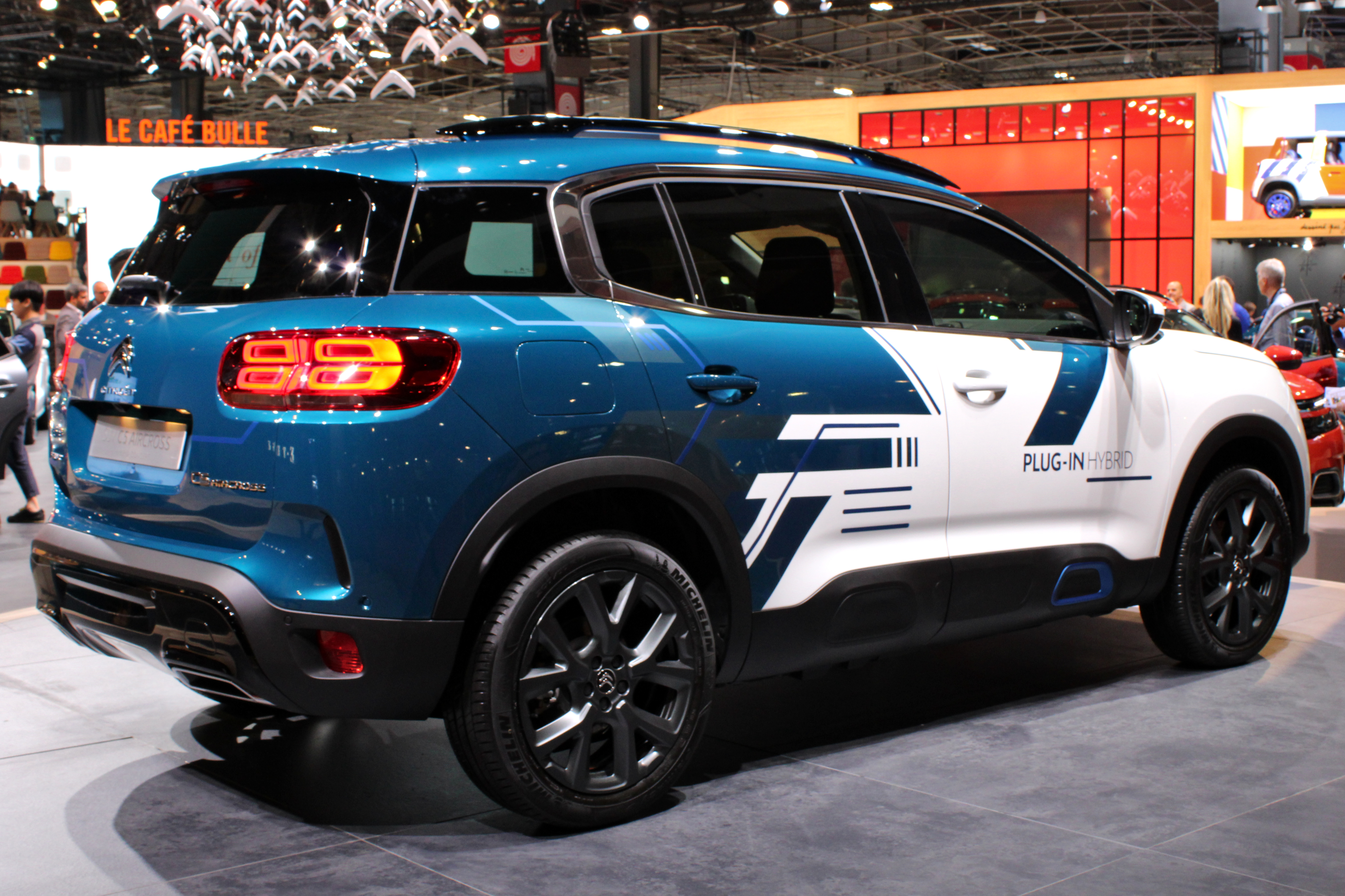 Citroen C5 Aircross Plug-in-Hybrid at Paris Motor Show 2018